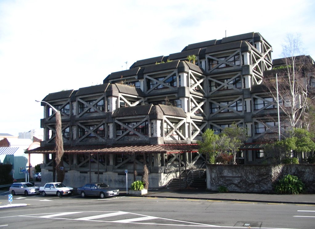 Terrace House, Home to the Computer Graphic Design Department of Wanganui School of Design, Wanganui, New Zealand.